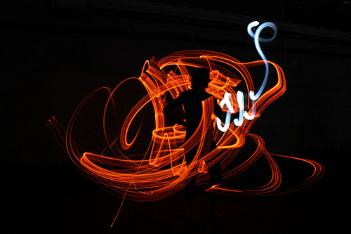 Light painting photography